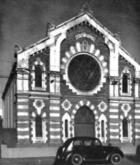 Synagoge in Gloucester Street, Christchurch